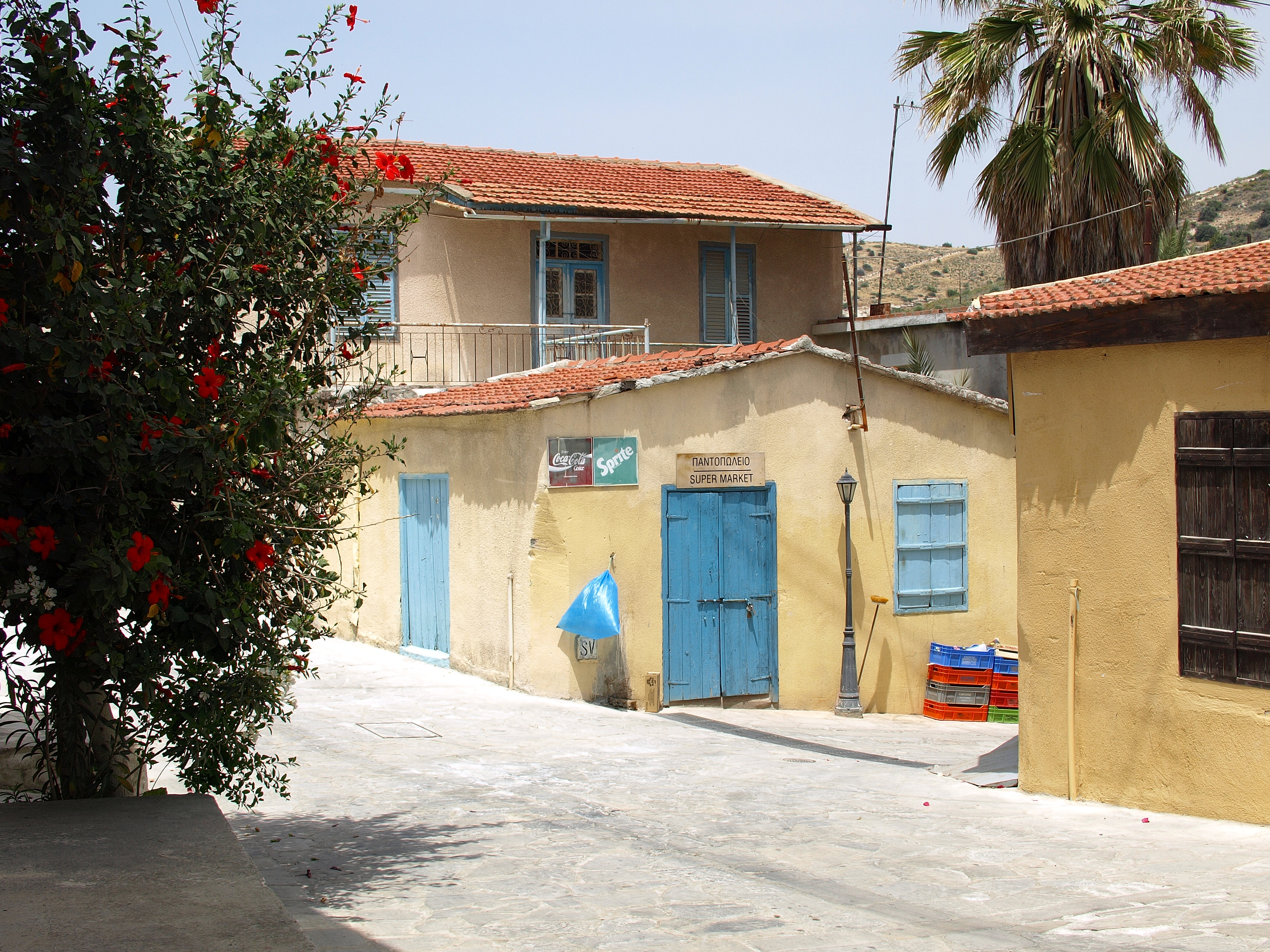 Anna's mini-supermarket in Kalavasos/Cyprus